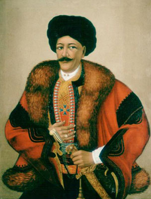 Portrait of Stojan Jankovic